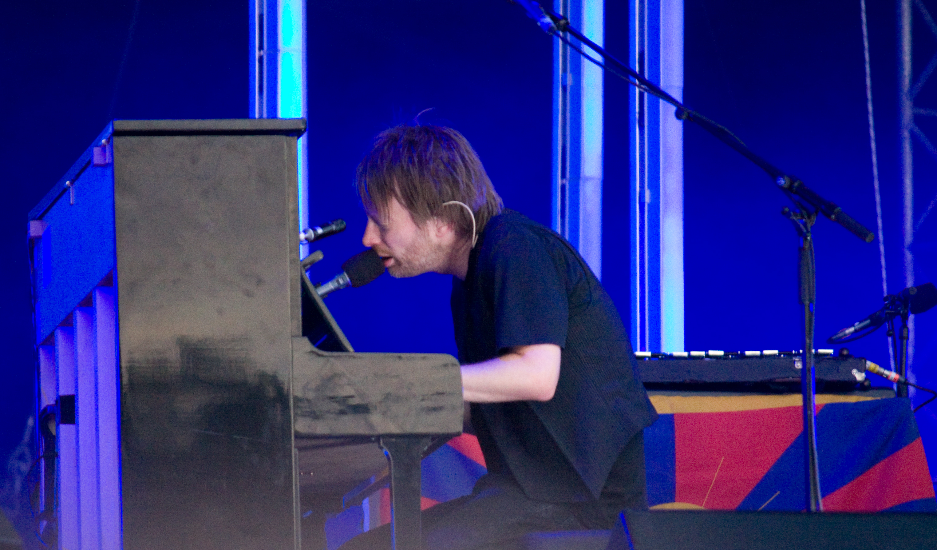 Thom Yorke uses an upright piano.